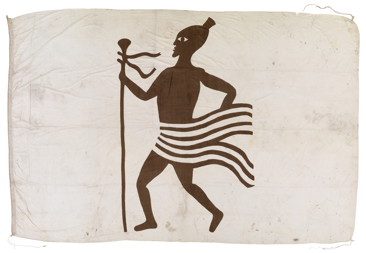 Flag of an African slave trader, presented to William Henry Wylde by Capt. Arthur Parry Eardley Wilmot R.N. (1815-1886) around 1866.